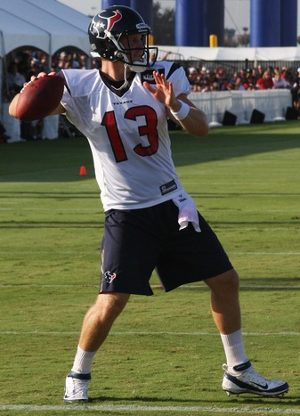 T. J. Yates in training camp.